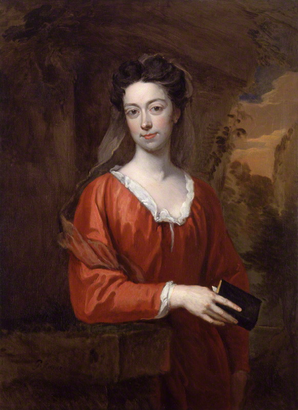 Elizabeth Burnet by Sir Godfrey Kneller, Bt oil on canvas, 1707 41 in. x 30 3/8 in. (1041 mm x 772 mm) Purchased, 1984 NPG 5751